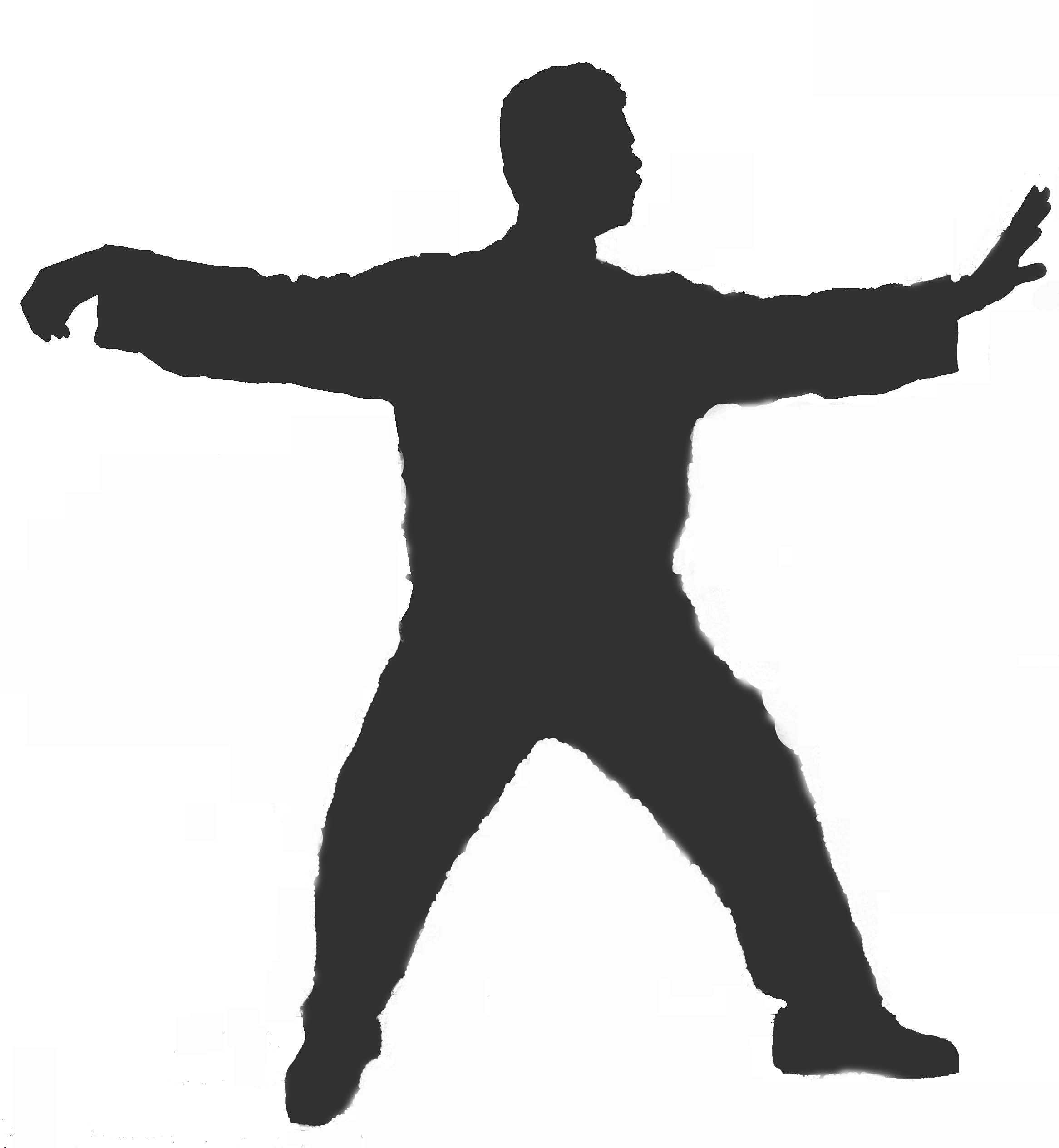 Guang Ping Yang Tai Chi Chuan Single Whip